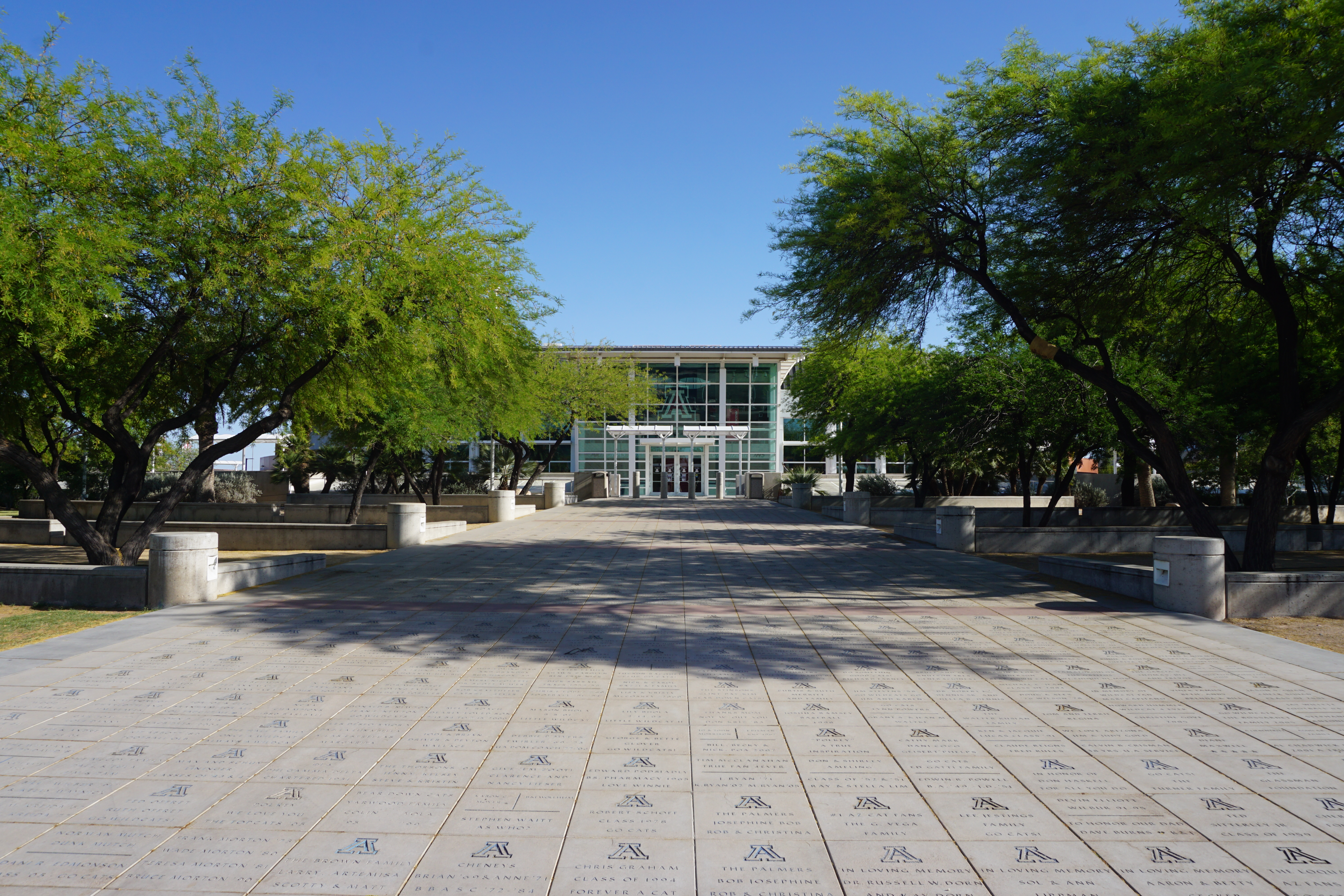 The McKale Memorial Center on the campus of the University of Arizona in Tucson, Arizona (United States).